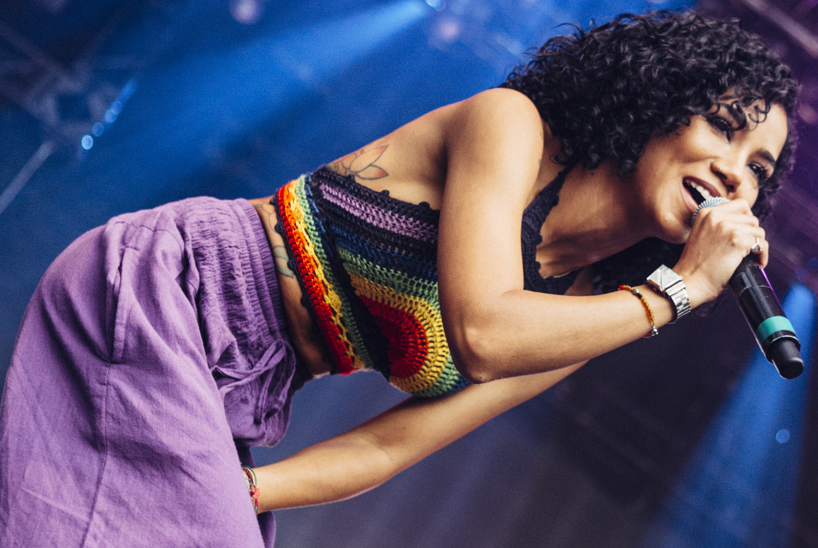 Singer Jhené Aiko performing at Bumbershoot in Seattle, Washington on September 5, 2015.